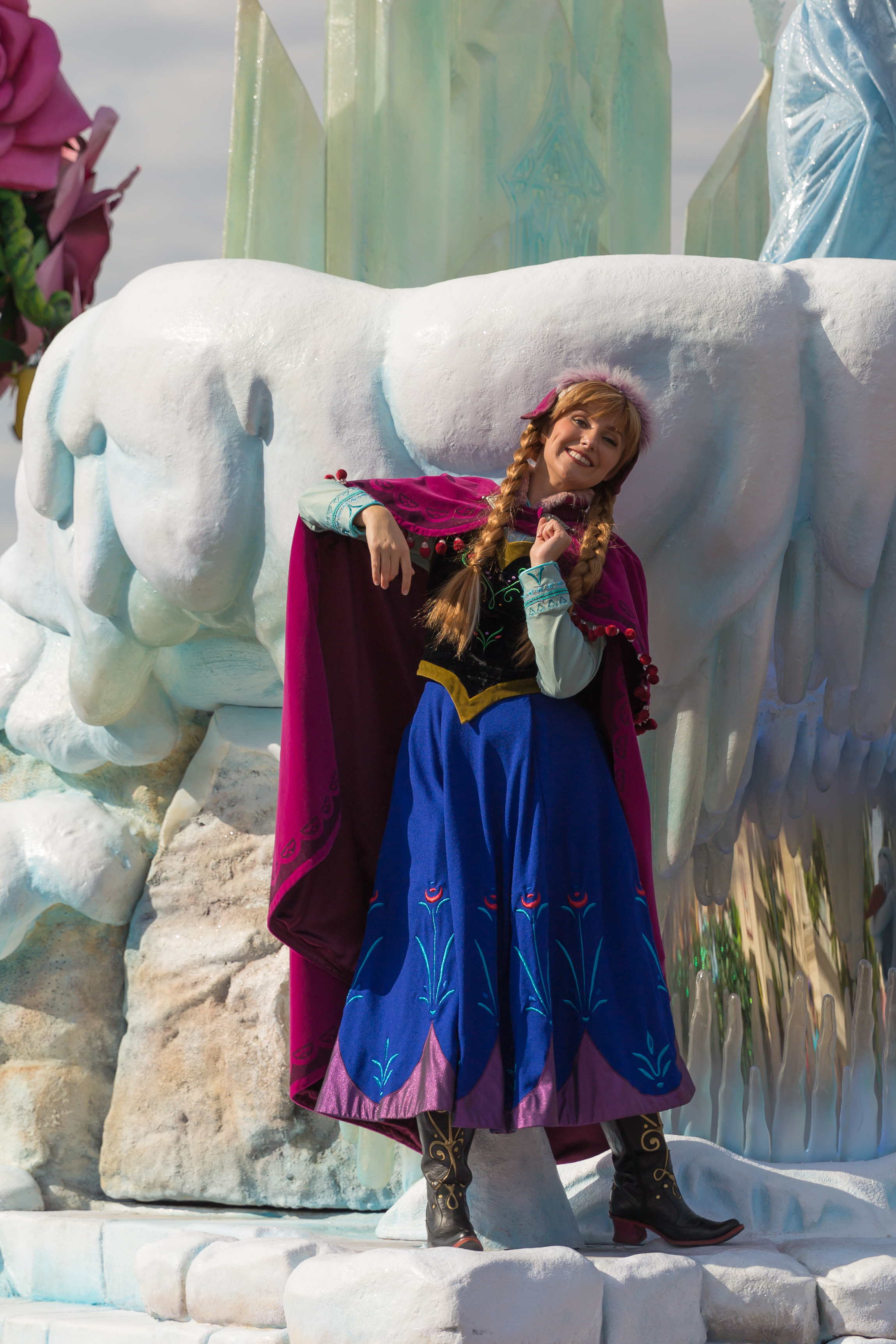 Anna in The Snow Queen at the Disney Magic On Parade in Disneyland Paris.